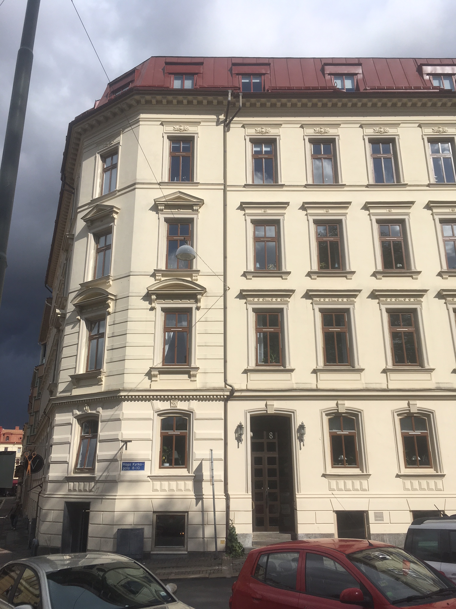 The birthplace of composer Kurt Atterberg, Haga kyrkogata 8, Gothenburg, Sweden.